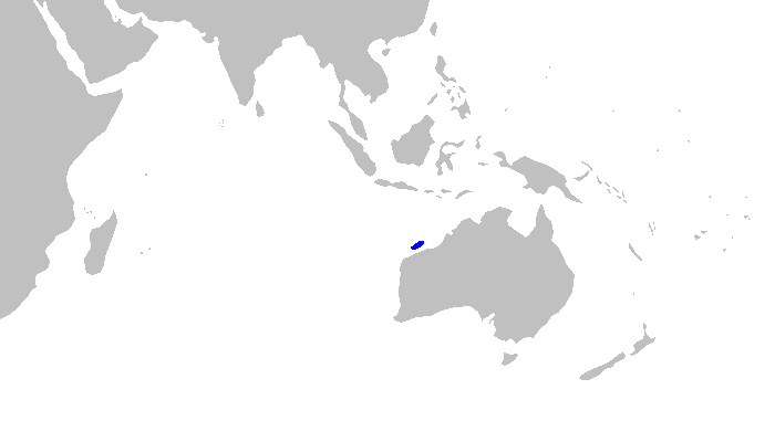 Distribution map for Hemitriakis falcata